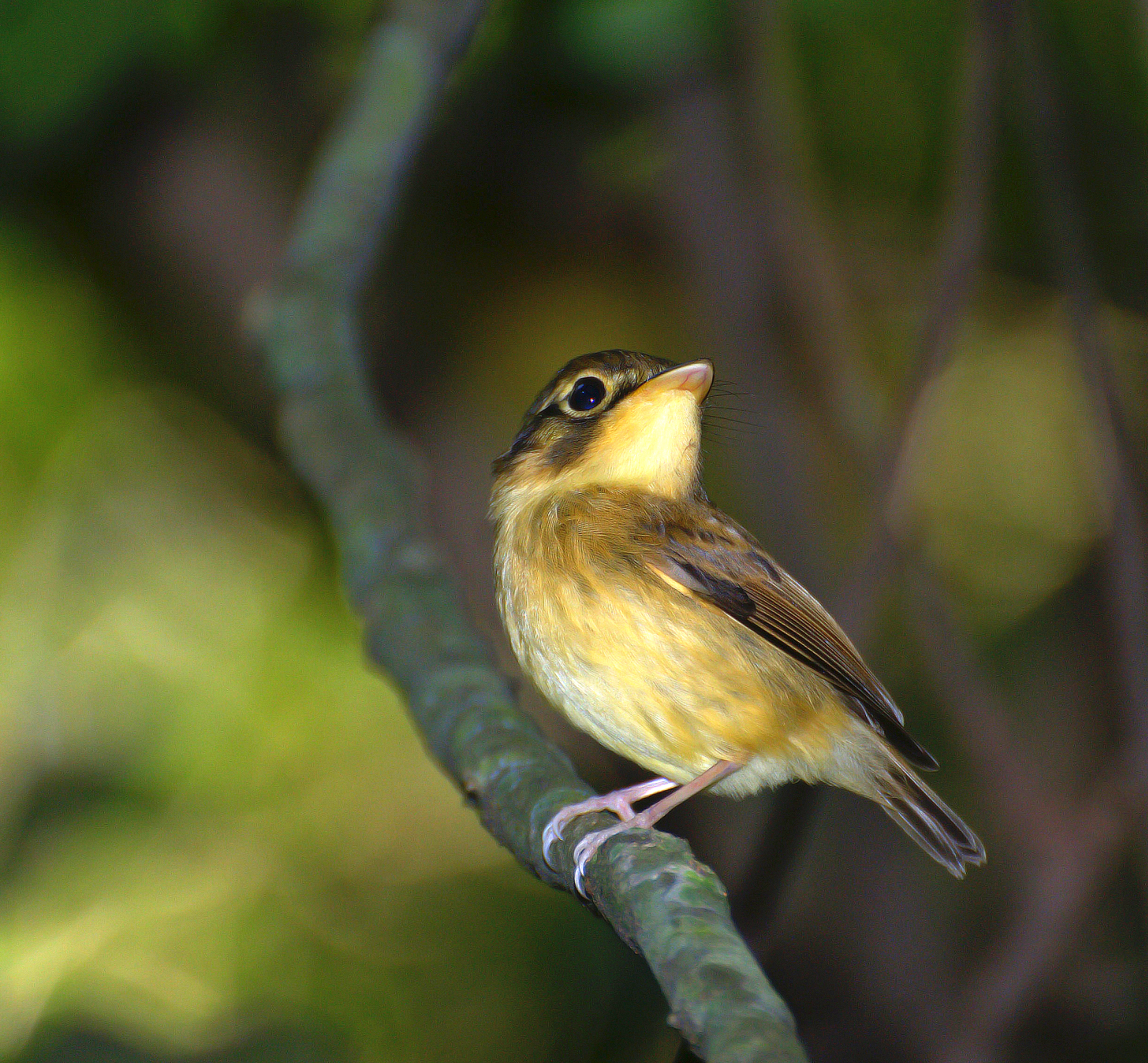 A White-throated Spadebill at Parque Estadual da Serra da Cantareira, Sao Paulo, Brazil.